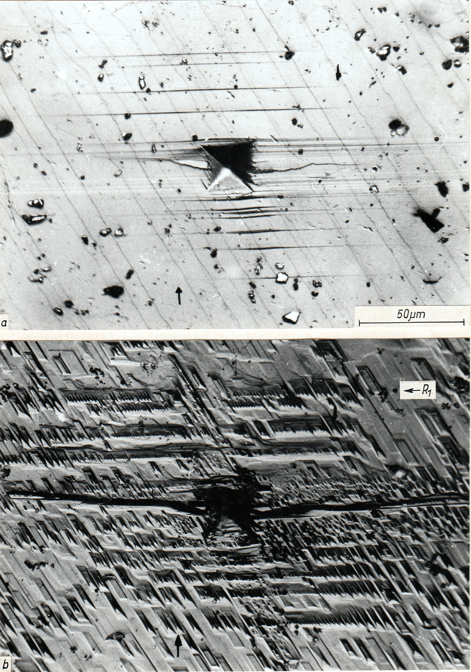 The picture shows glide steps (a) and corresponding etch pits (b) sorrounding the microhardnes indention on the (100) plane of a TCNQ complex salt crystal.